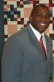 Magic Johnson